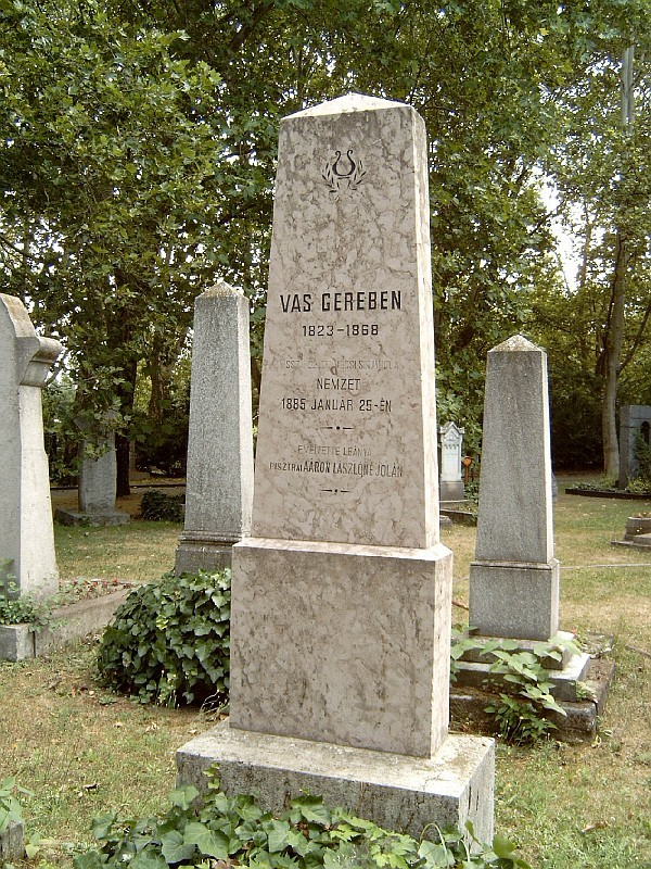 Grave of Gereben Vas in the Kerepesi Cemetery